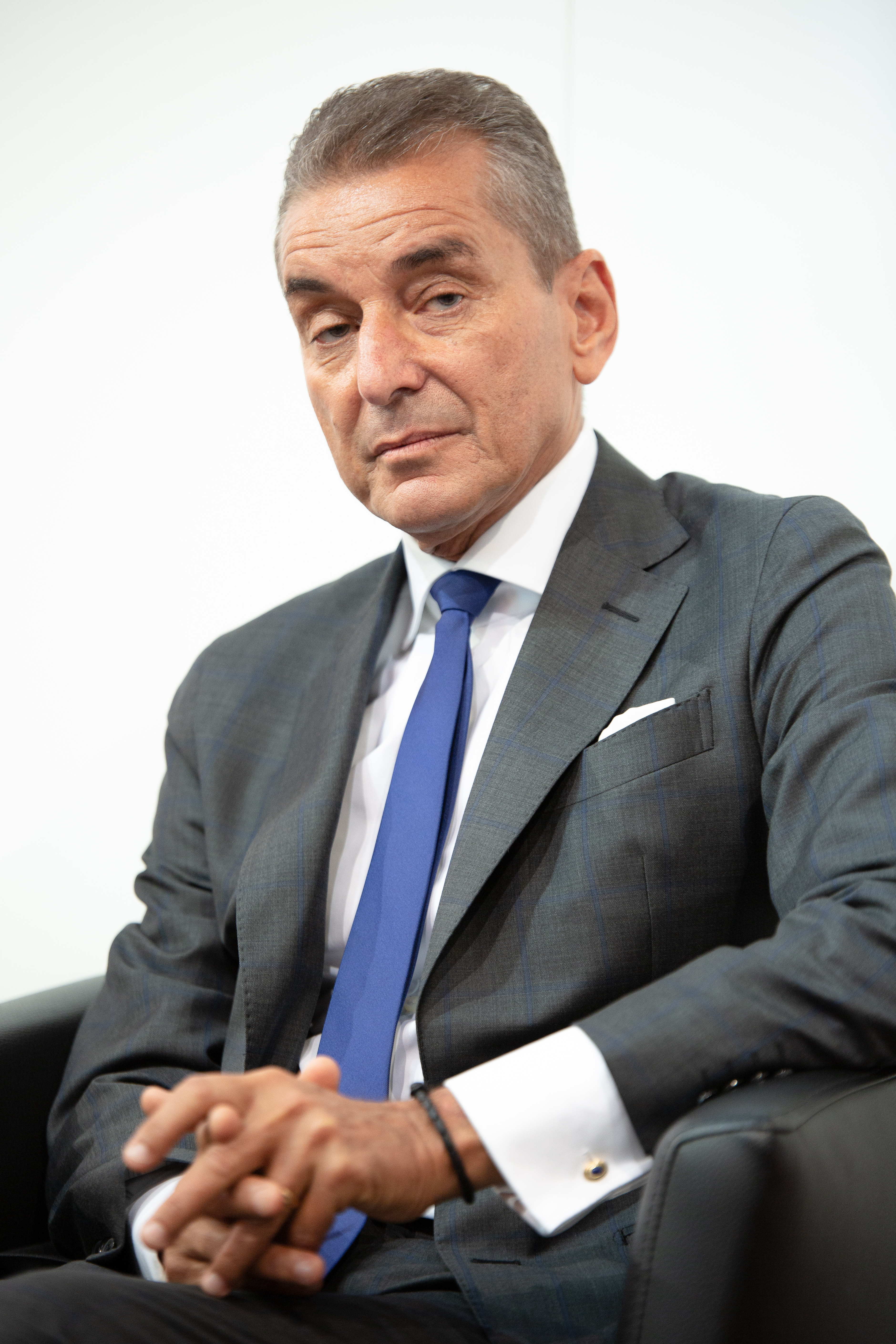 Michel Friedman in a discussion with Renan Demirkan and the presenter Birgit Güll on the Vorwärts stand at the Frankfurt Book Fair 2018